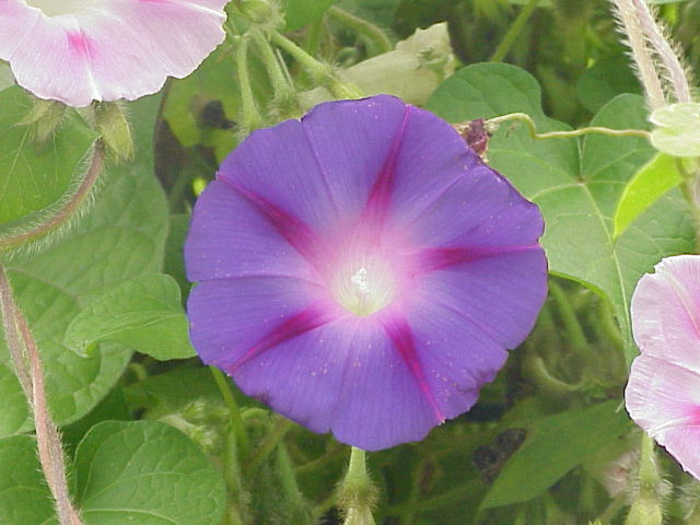 Species: Ipomoea purpurea Family: Convolvulaceae Image No. 2